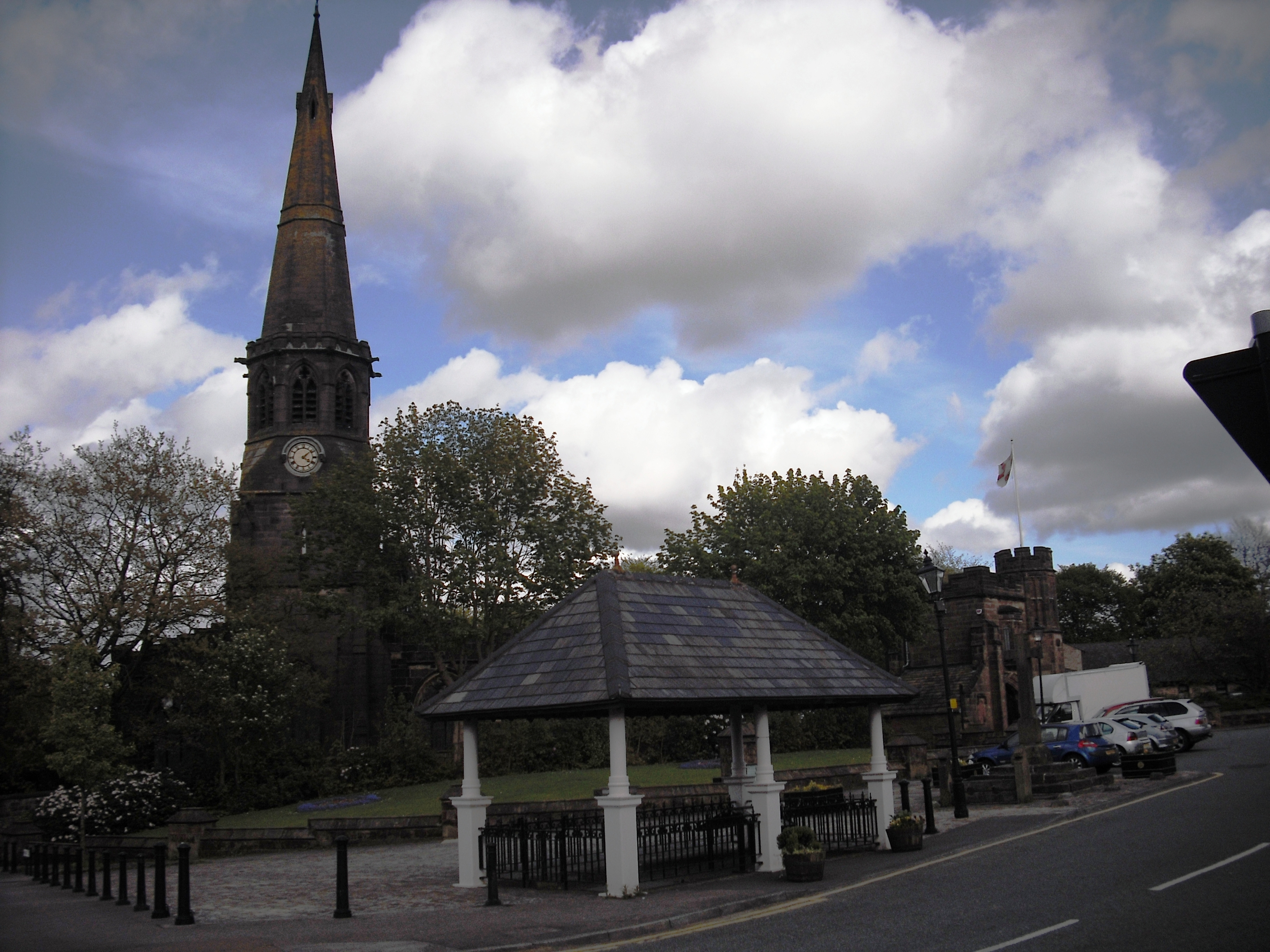 St Wilfrid's from Market Place, Standish